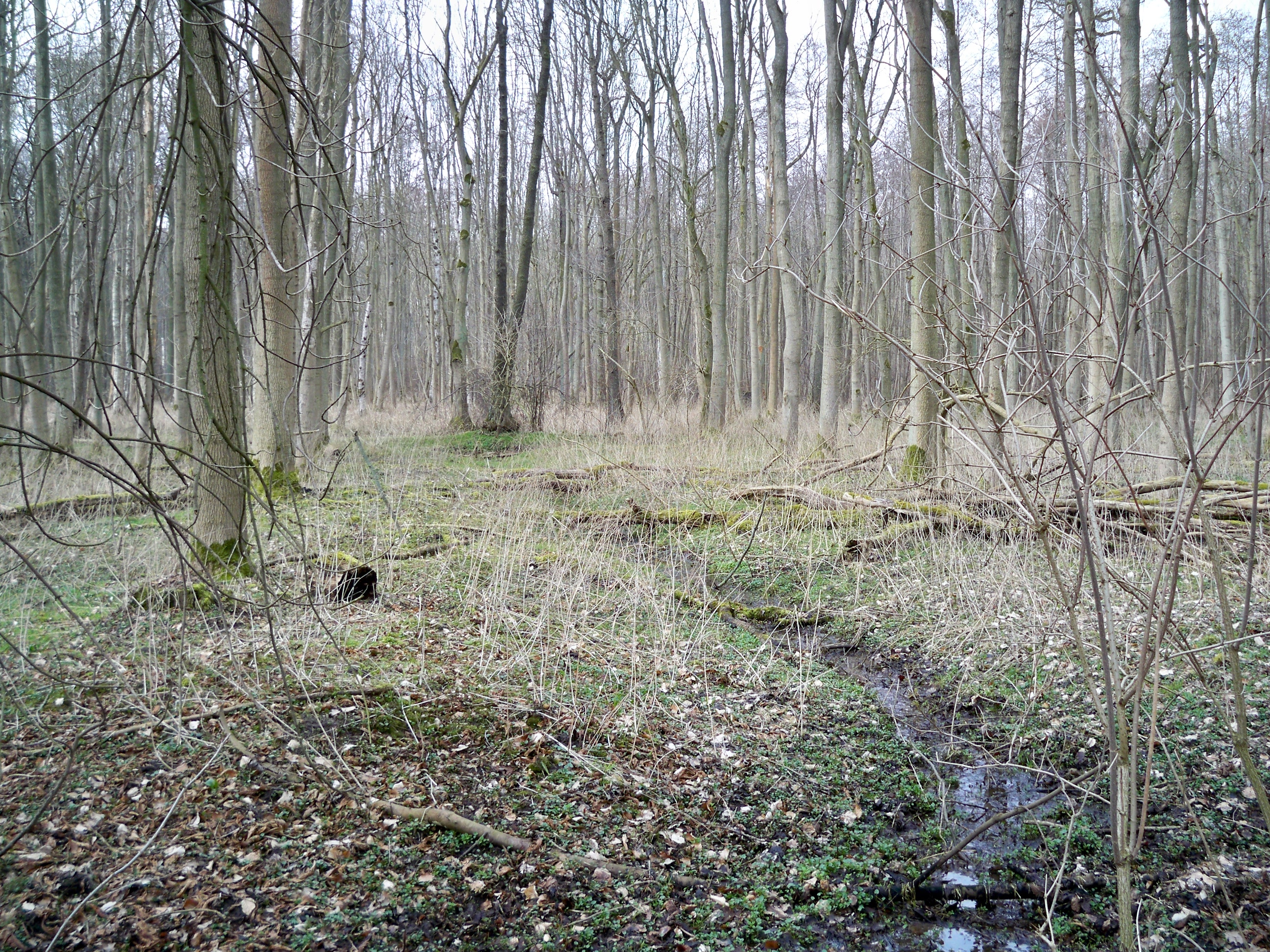 Beetzendorf, Saxony-Anhalt, Nature reserve Beetzendorfer Bruchwald und Tangelnscher Bach